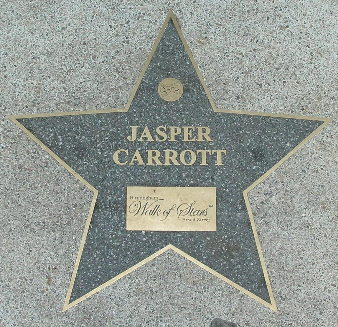 Star for Jasper Carrott on the Birmingham Walk of Stars on Broad Street, Birmingham, England. Set in the pavement in 2007. Photographed by me 8 November 2007. Oosoom